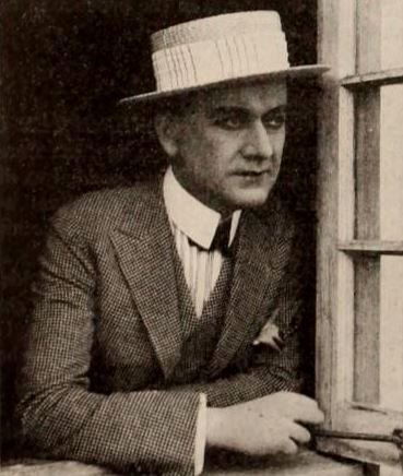 Still from the American comedy drama film Checkers (1919) with Thomas Carrigan, on page 52 of the September 20, 1919 Exhibitors Herald.